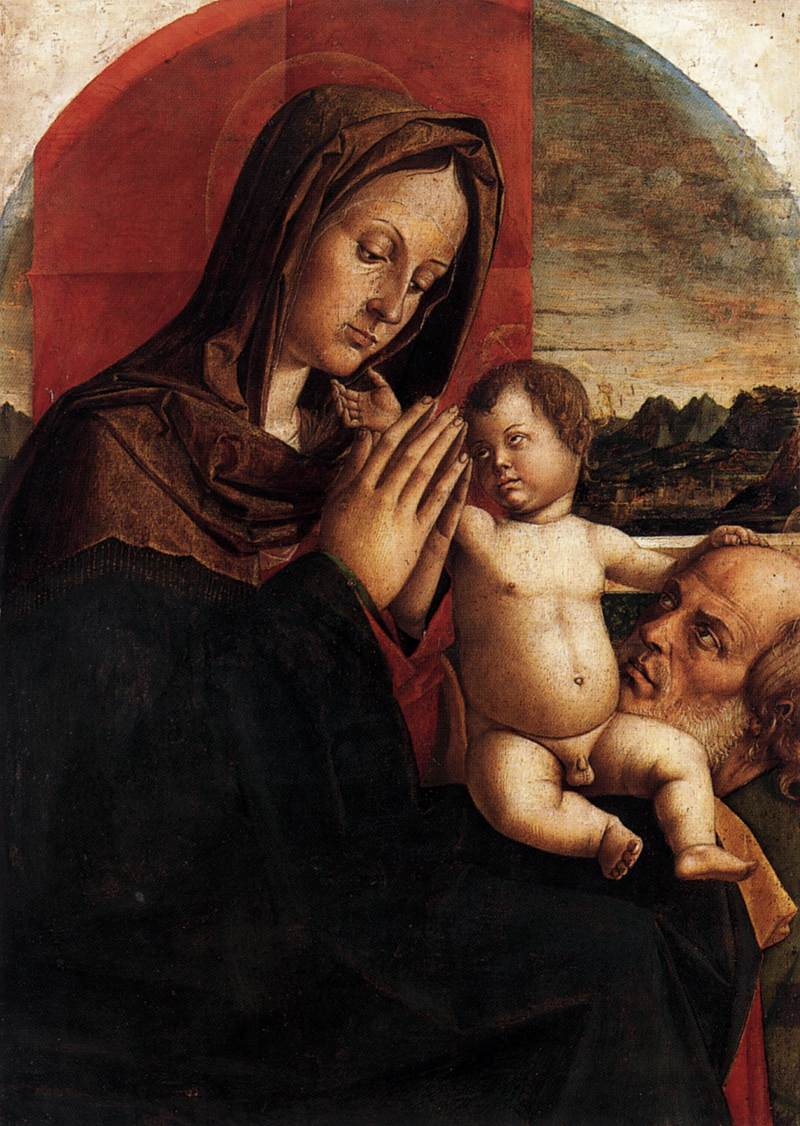 Work of Bartolomeo Montagna, tempura on canvas. Currently located in Museo Correr - Venice.